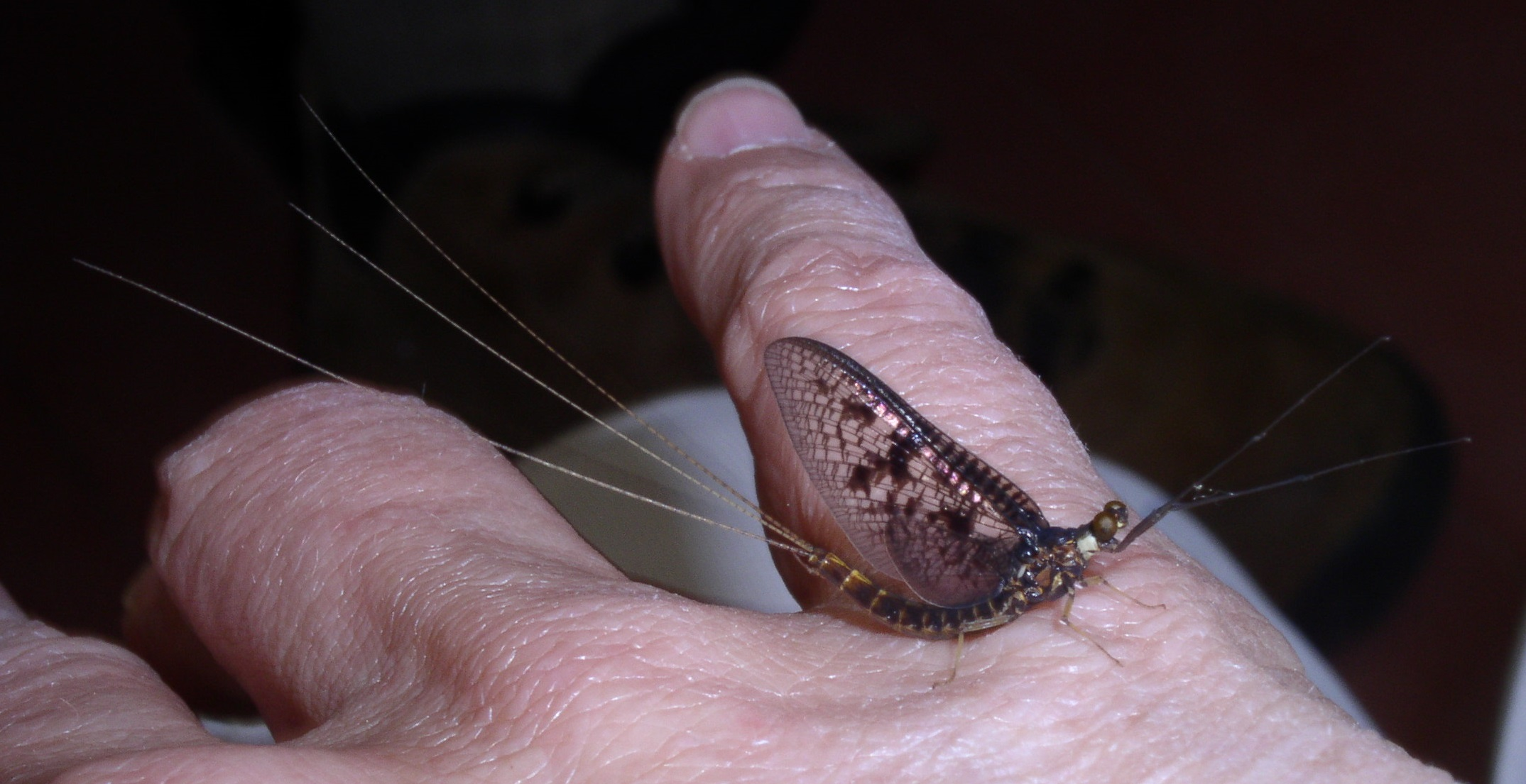 Common Burrower Mayfly, Ephemera simulans male. Colton Pt. State park. Tioga Cty., Tioga County, Pennsylvania, USA.